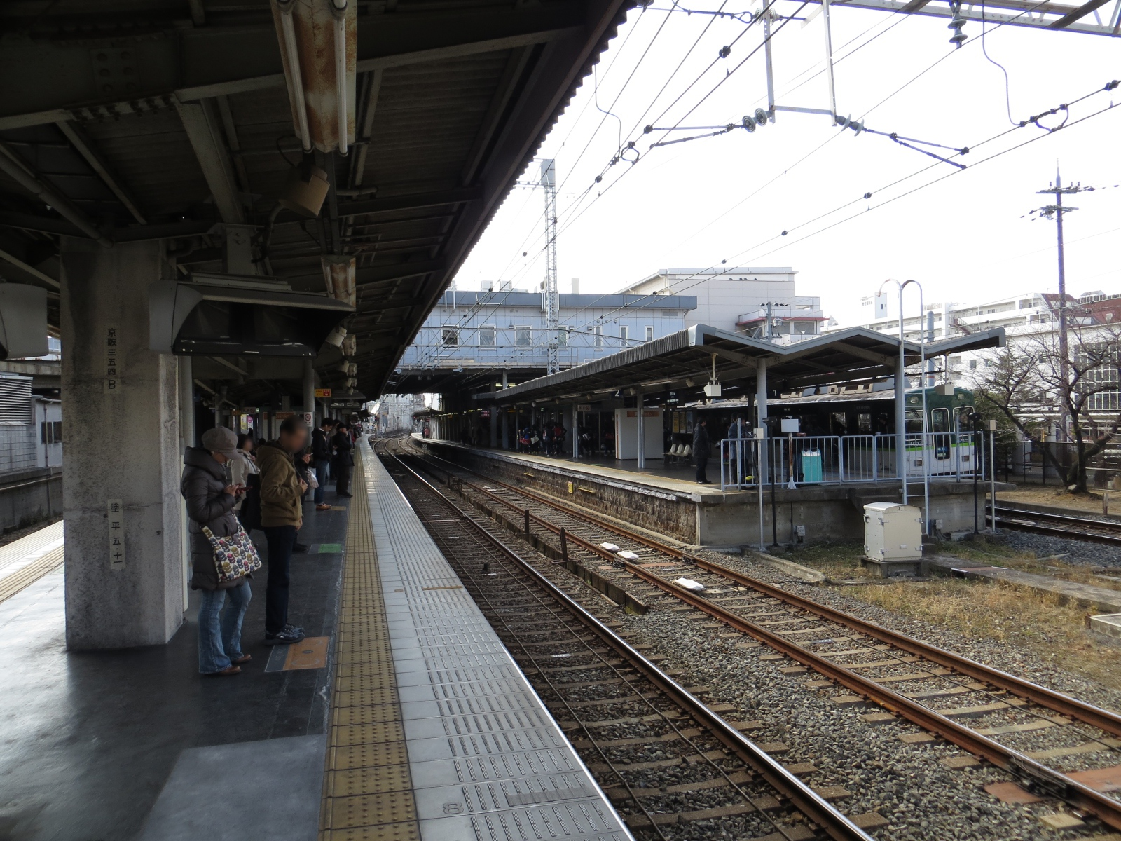 Railway platform from Kōrien Station.